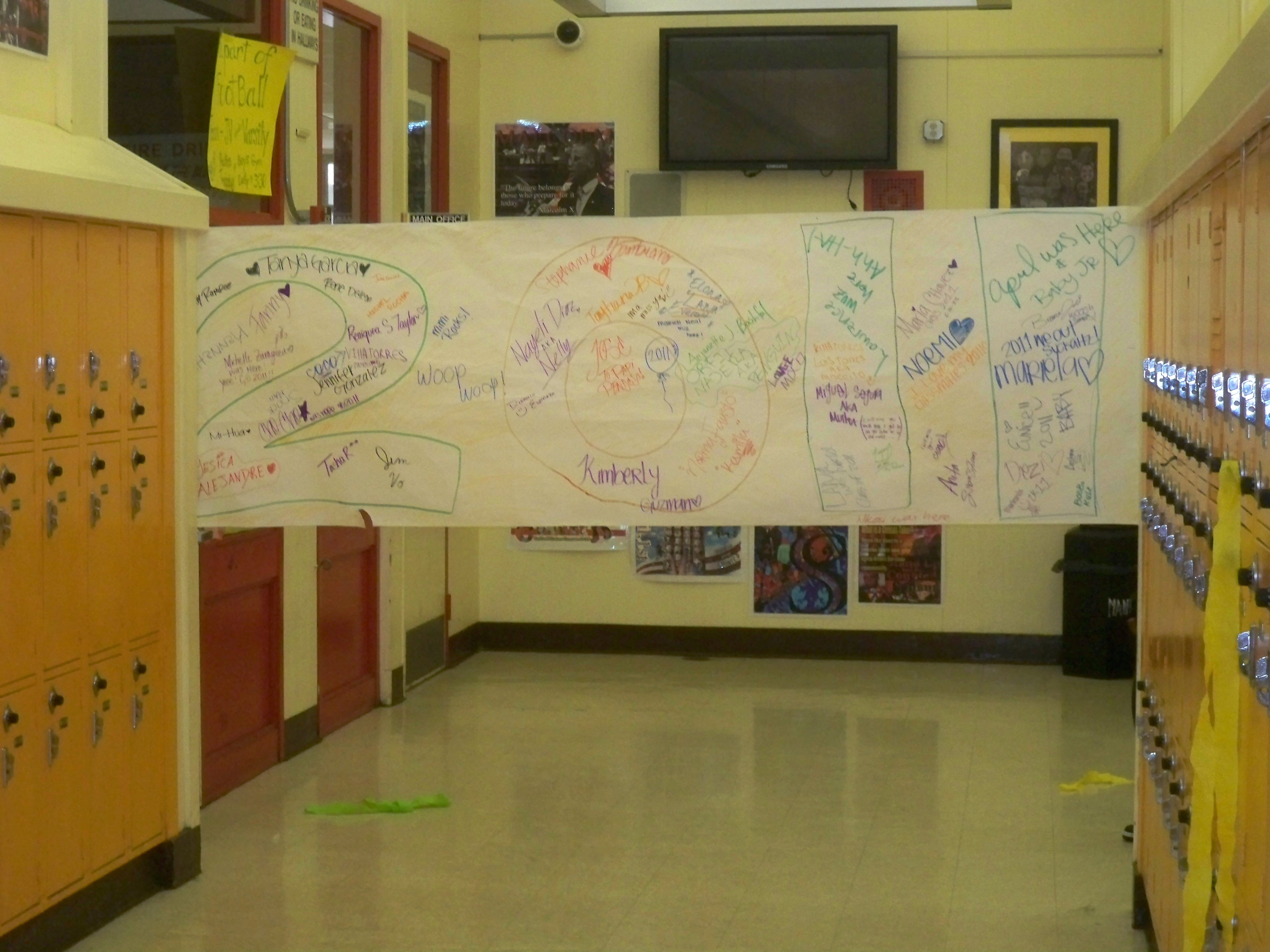 Celebrating Class of 2011